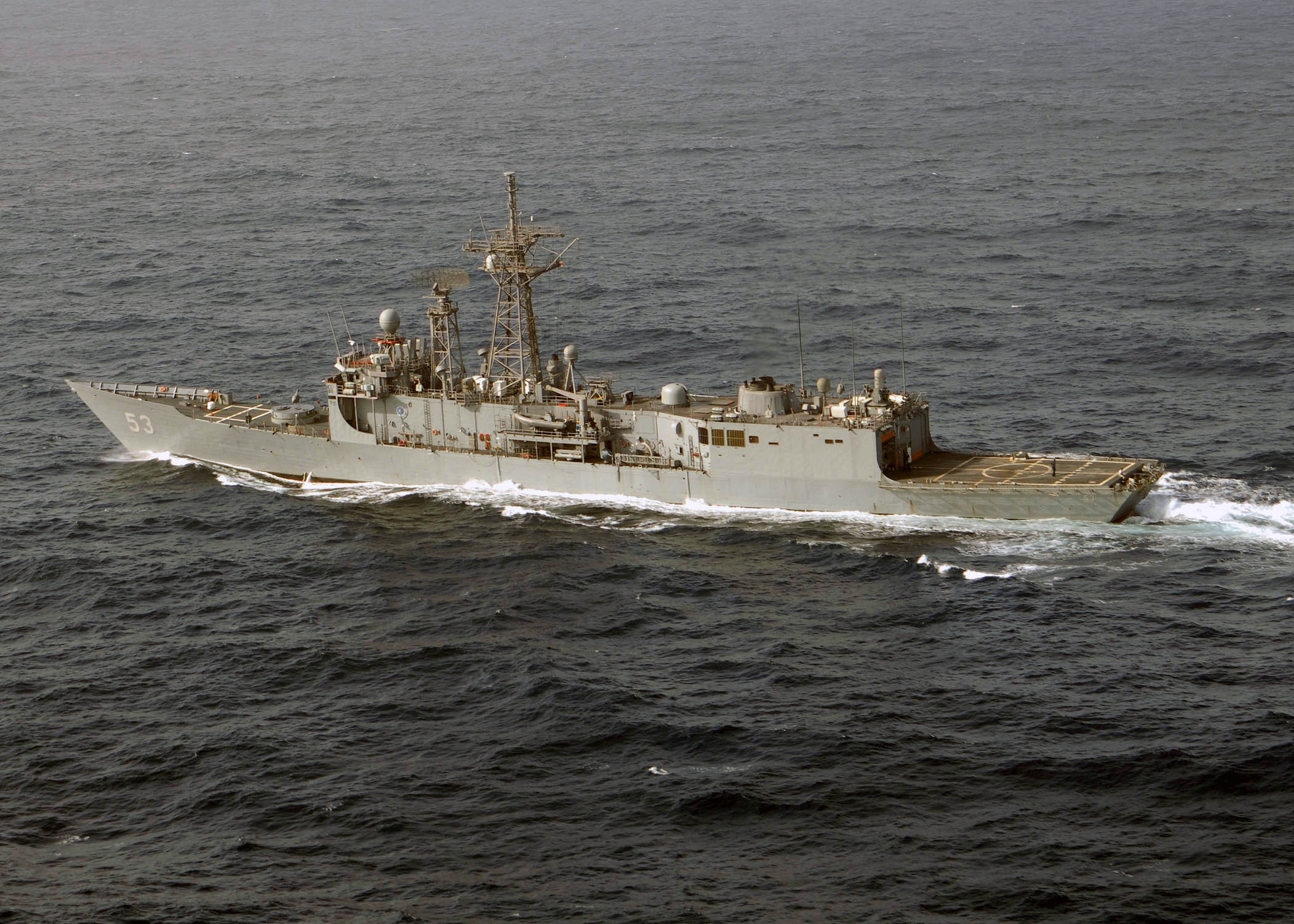 Persian Sea (June 25, 2005) – The Oliver Hazard Perry-class frigate USS Hawes (FFG 53) underway while participating in Operation Inspired Siren. Inspired Siren is a bilateral joint exercise between the United States and Pakistan Navies. The U.S. and Pakistan are conducting training in Maritime Security Operations (MSO), air defense, anti- submarine warfare, surface warfare, mine counter measures, electronic warfare, replenishment at sea and command and control. U.S. Navy photo by Photographer’s Mate 1st Class Robert R. McRill (RELEASED)